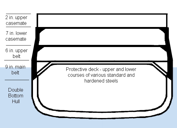 Author: My own work, Kevin Murray Source: redrawn from graphic on page 47 of: Friedman, Norman (1989). U.S. Battleships an illustrated design history. Annapolis: Naval Institute Press. Description: Drawing of USS Connecticut armor plan modified to USS Mississippi per description in text and tables of that source.